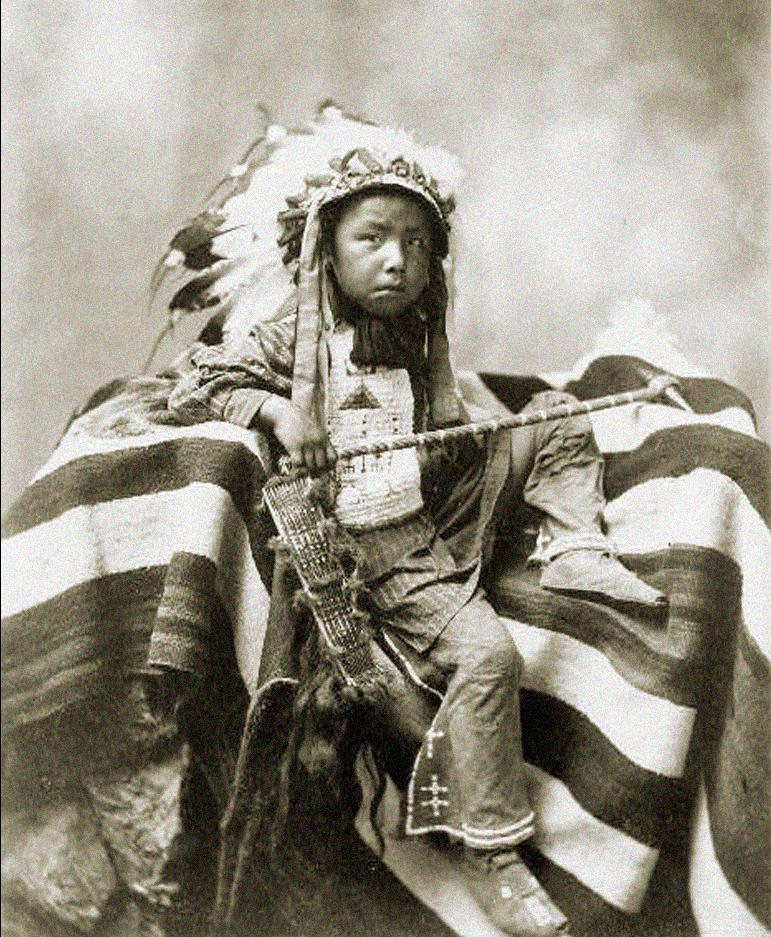 Joseph Bird Head posed with a handcrafted club. Likely part of a series of 400 photos of a group of Sioux who were exhibited at the Trans-Mississippi and International Exposition in Omaha, Nebraska c. 1898